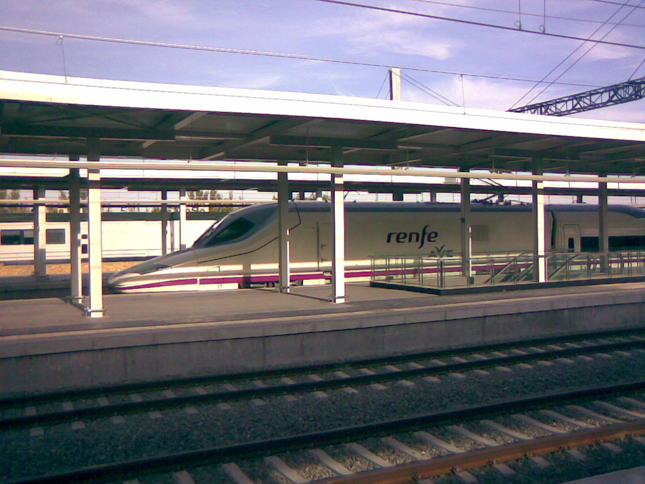 Talgo 350, AVE S-112, Fast testing train in Albacete station